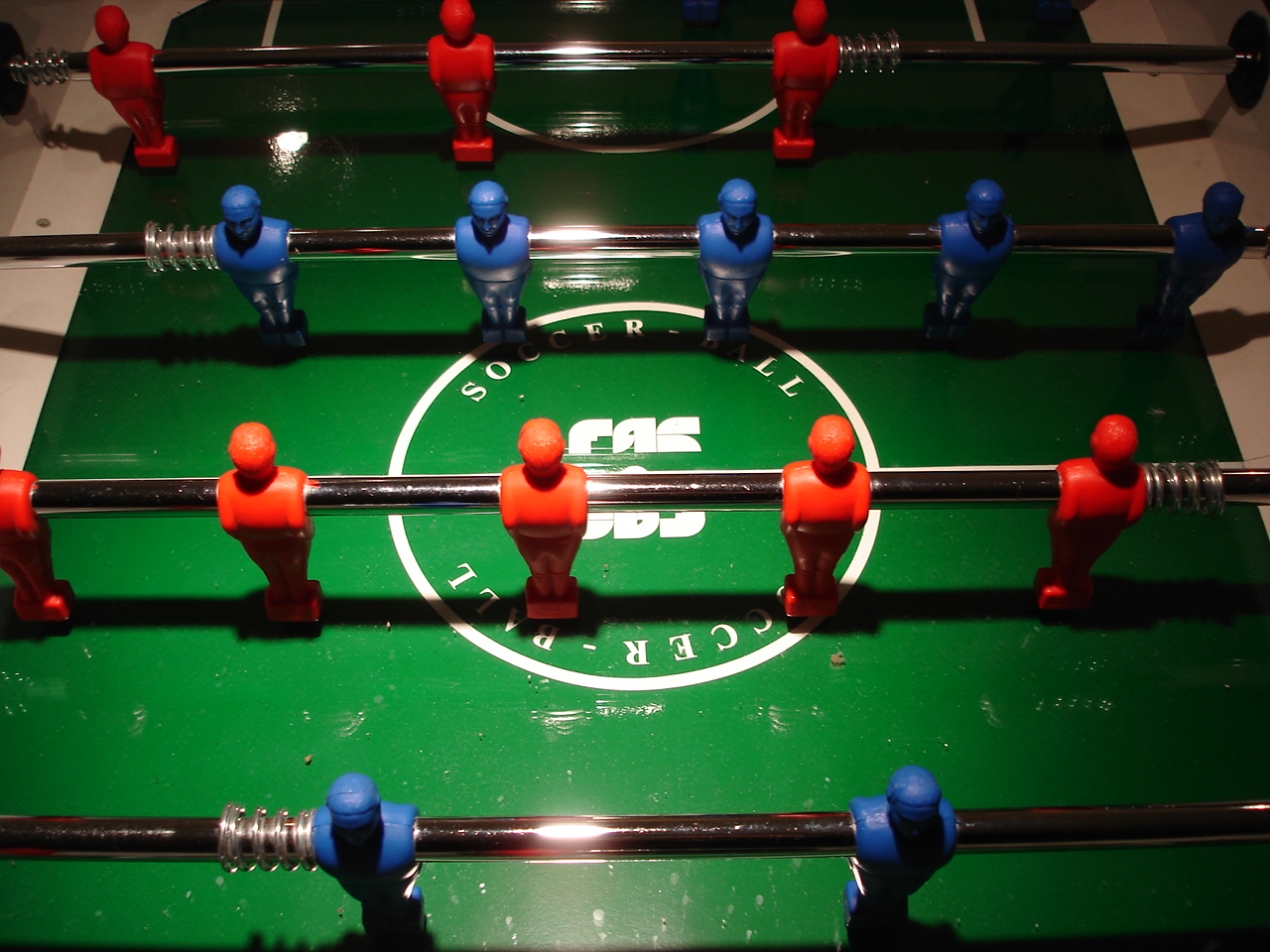 FAS Foosball table, top view. This picture was taken by myself, Luke Rathbone.